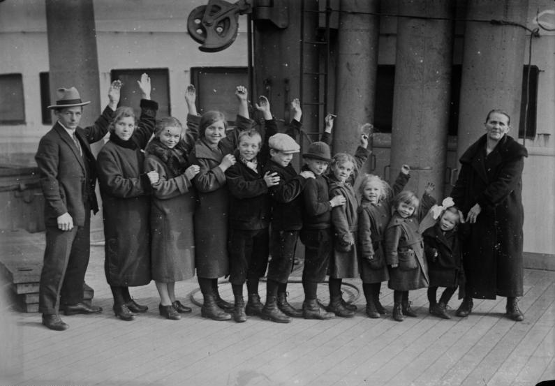 From the smallest to the Largest! An immigrant family with 10 children on their arrival at the port of New York. They want to try their luck in the new world.